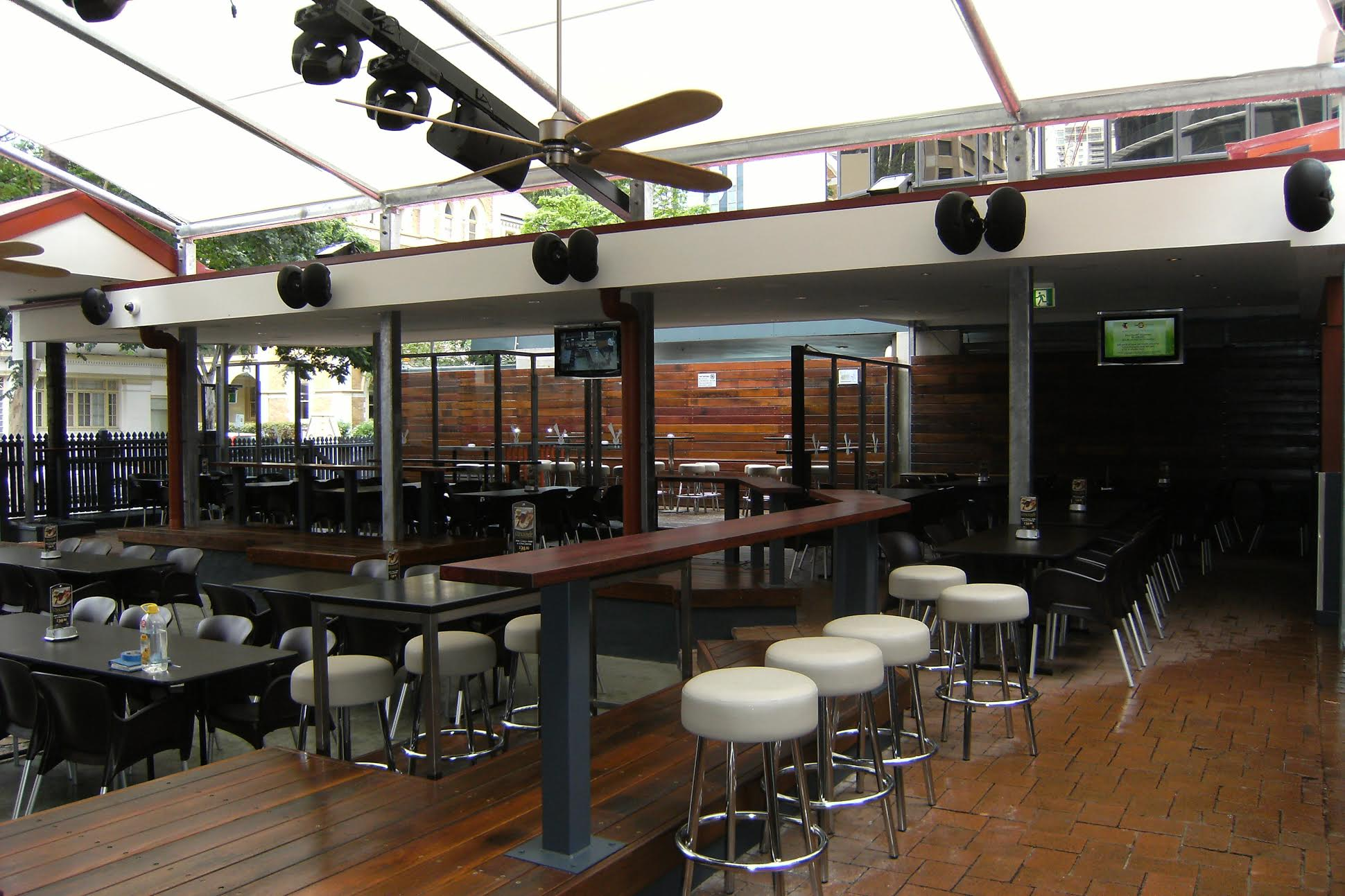 Largest beer garden in Brisbane CBD at the Victory Hotel